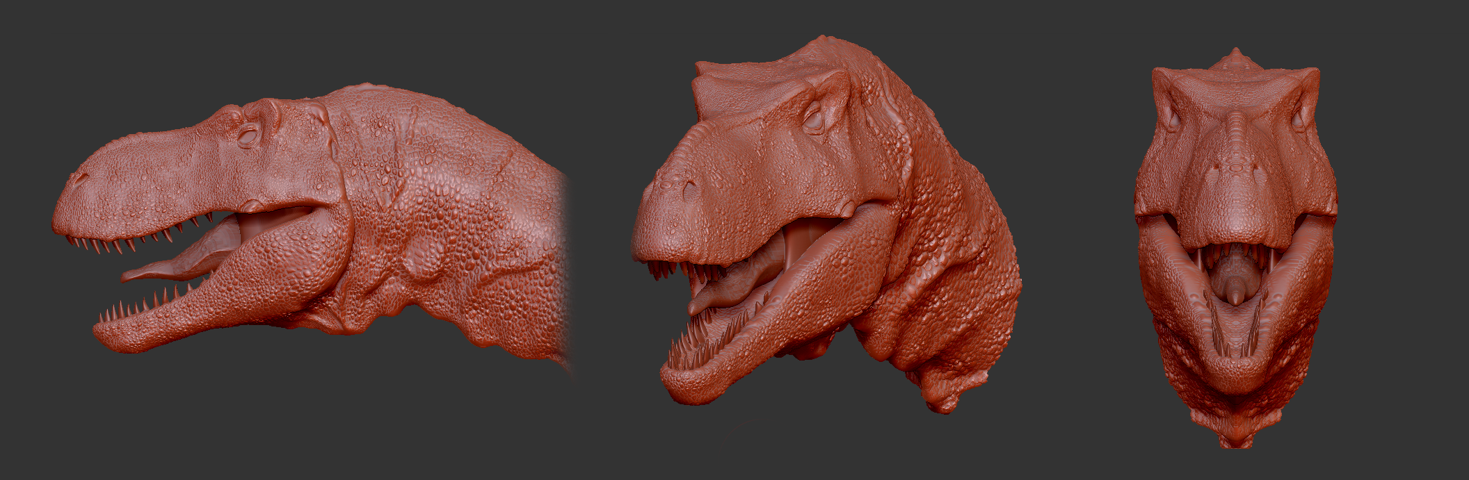 Digital reconstruction of the head of tyrannsaurus. Accuracy verification: Darren Naish. Digital reconstruction of the head of Tyrannosaurus, Model created for Dinosaur Zoo iPad application.